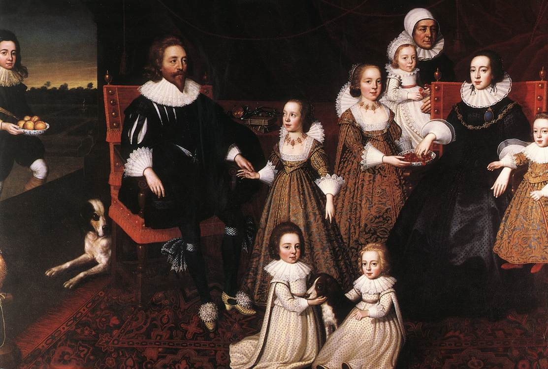 Depicted people: Thomas Lucy, Alice Lucy, Spencer Lucy, Robert Lucy, Richard Lucy, Constance Lucy and Bridget Lucy